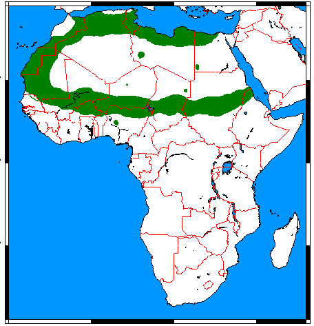 Ictonyx libyca or Poecilictis libyca range map, made by me with help of Map depending on the range map at IUCN red list.